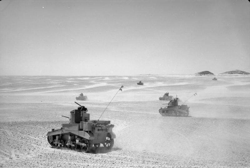 The British Army in North Africa 1941 8th King's Royal Irish Hussars training with their new Stuart tanks, 28 August 1941.